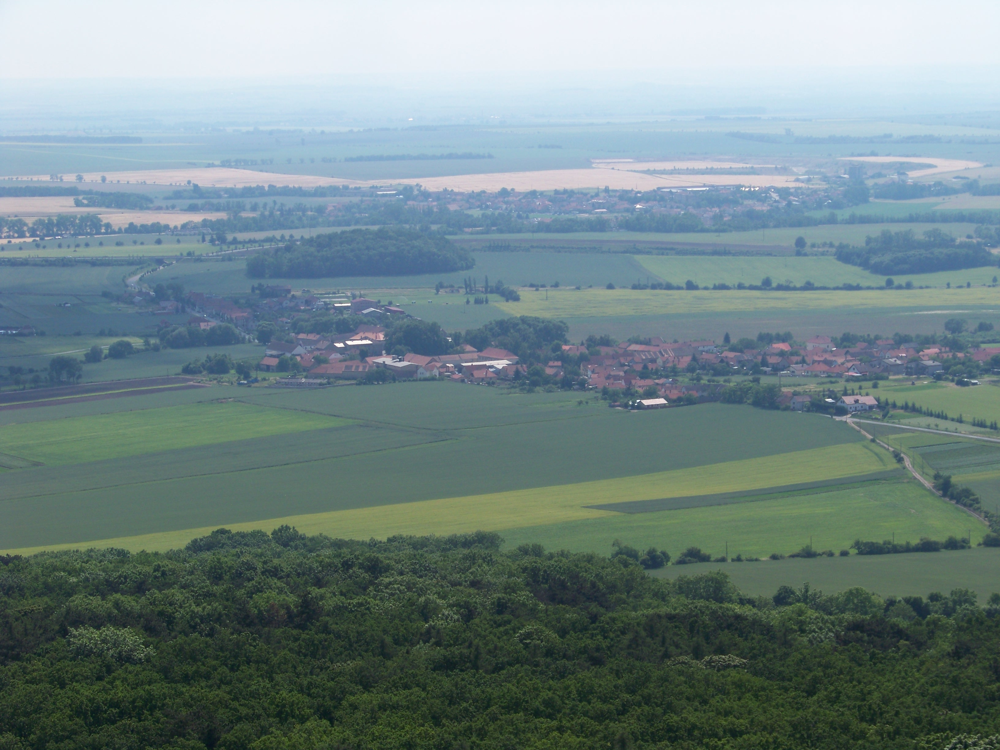 Vražkov, Litoměřice District,Ústí nad Labem Region, the Czech Republic. A view from Říp Mountain.